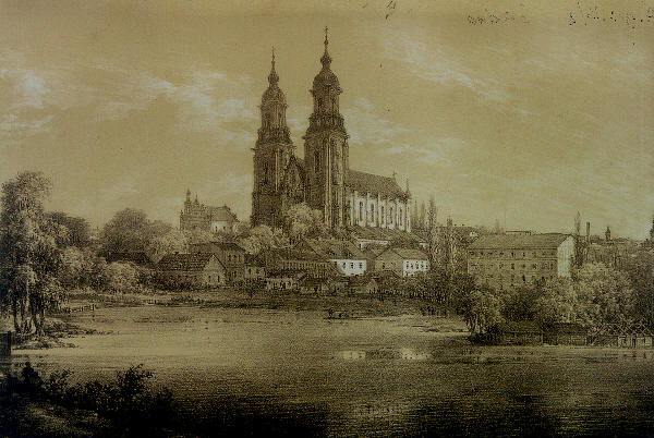 View of Gniezno from the bank of Jelonek lake. Lithograph by M. Fajans acc. to the drawing by N. Orda.